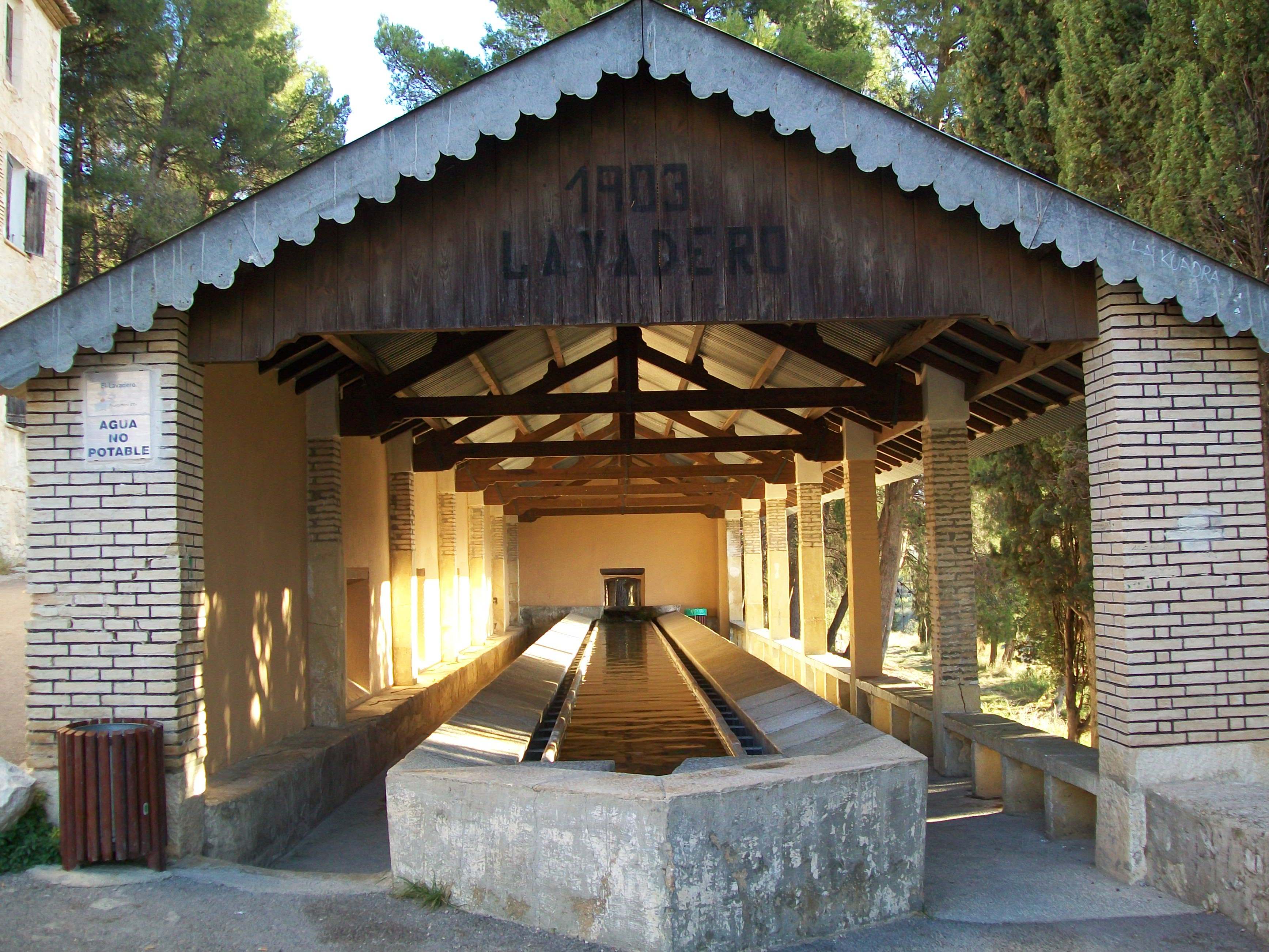 Lavadero de Ibi, Alicante